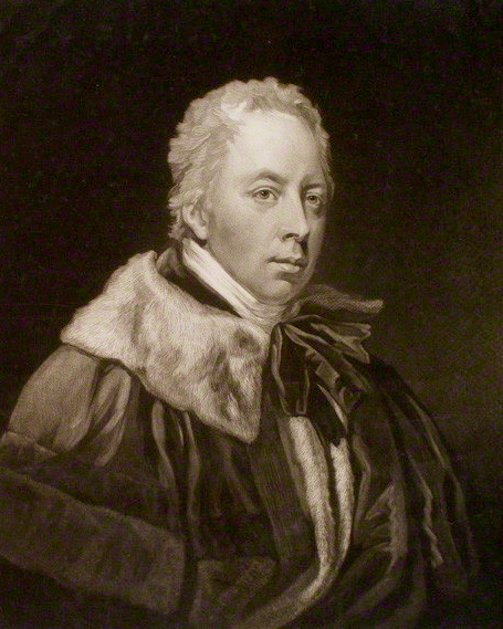 Portrait of William Lowther, 1st Earl of Lonsdale (1757-1844)